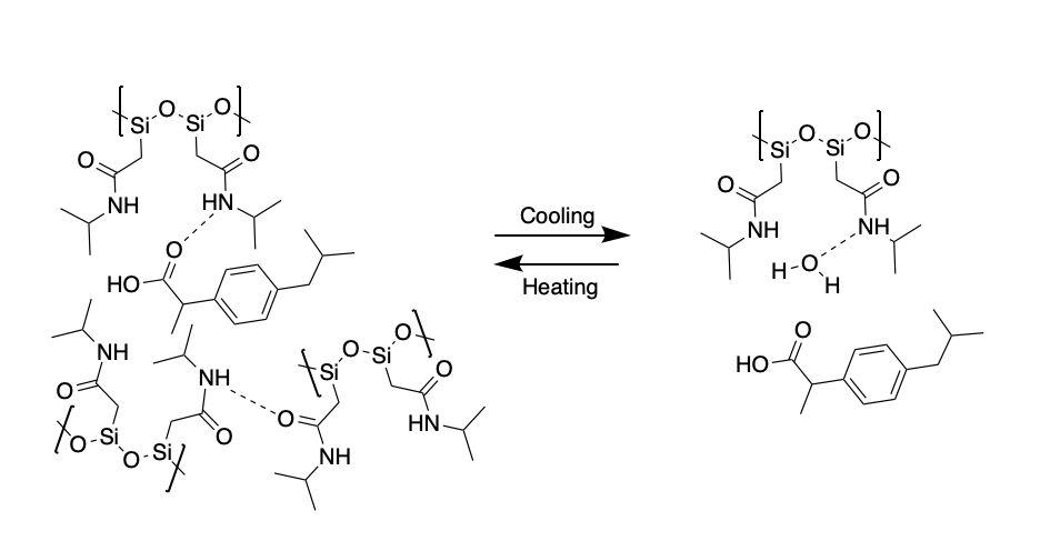 Depiction of smart polysiloxane delivering ibuprofen